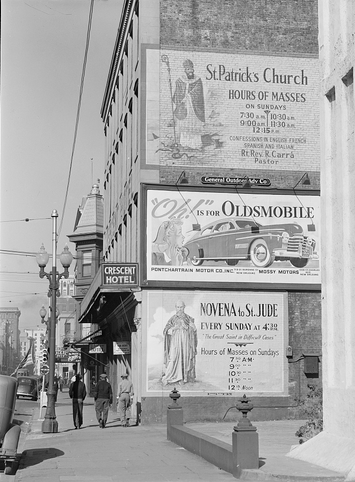 " Billboards on side of building in New Orleans, Louisiana" 1941. View is standing in front of St. Patrick's Church, looking downriver towards intersection of Girod Street. Two billboards for services at St. Patrick's flank one for Oldsmobile automobiles. Building down from St. Patricks' at the time housed "Crescent Hotel".